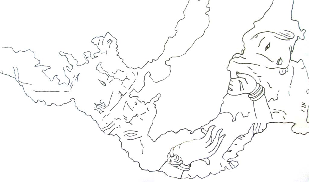 Drawing of an ancient painting found from Karambagala cave, Sri Lanka. Belongs to Anuradhapura era. Represents a Bodhisattva with a woman.